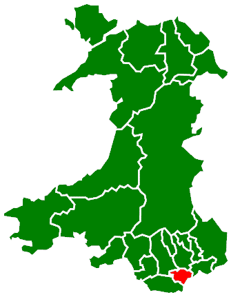 Map of Cardiff